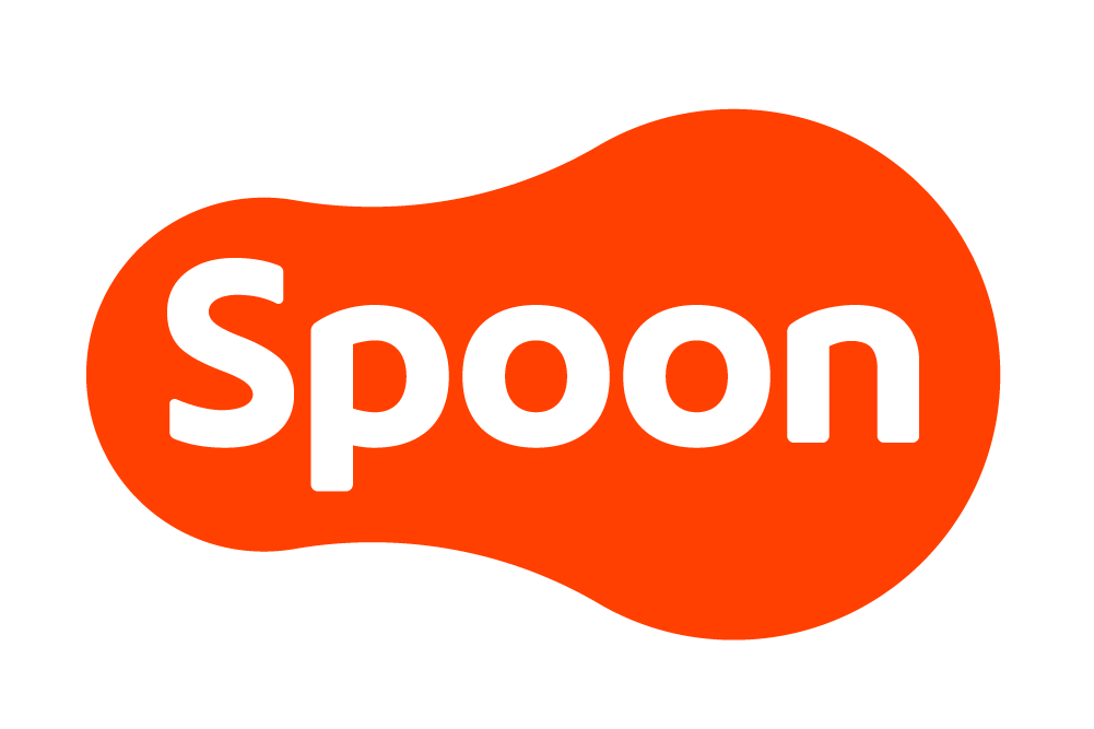 This is Spoon's New Logo.